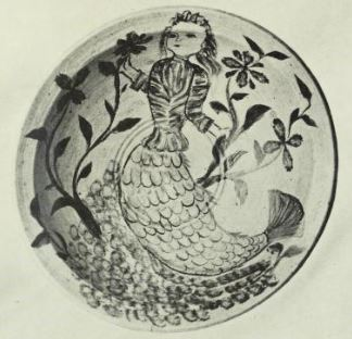 Folk art by norwegian rose painter Kristen Aanstad, 1746-1832. Mermaid painted in a wooden bowl